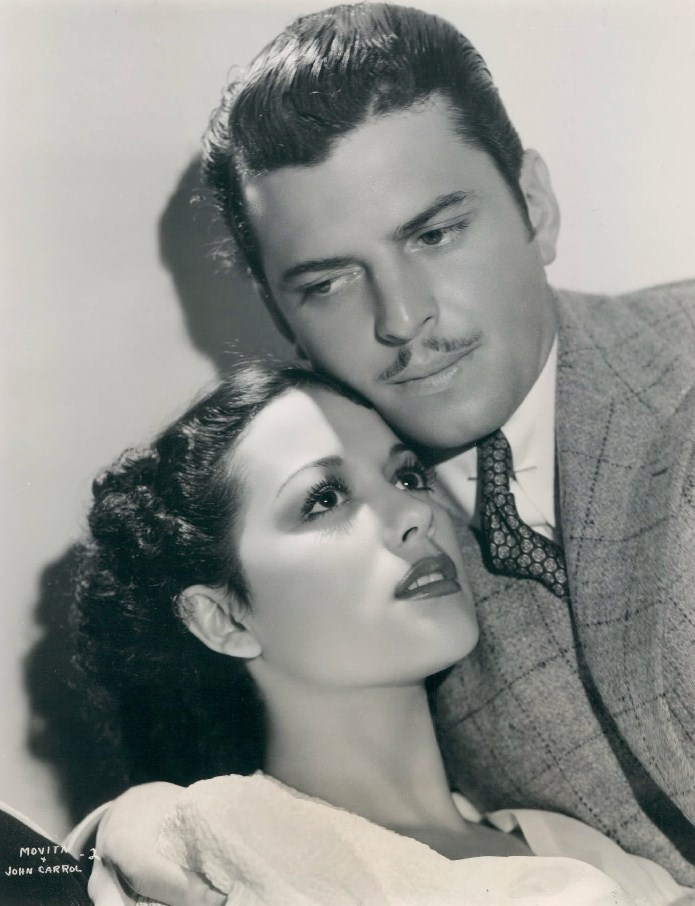 Movita (aka Movita Castaneda) and John Carroll in Wolf Call - publicity still (original image cropped : see source)